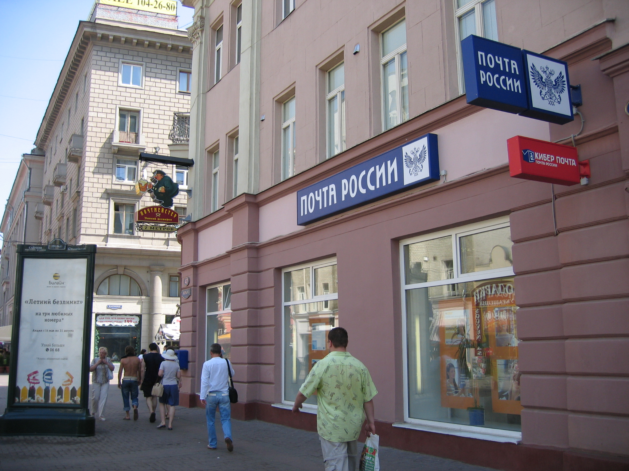 Post of Russia office, Arbat street, Moscow